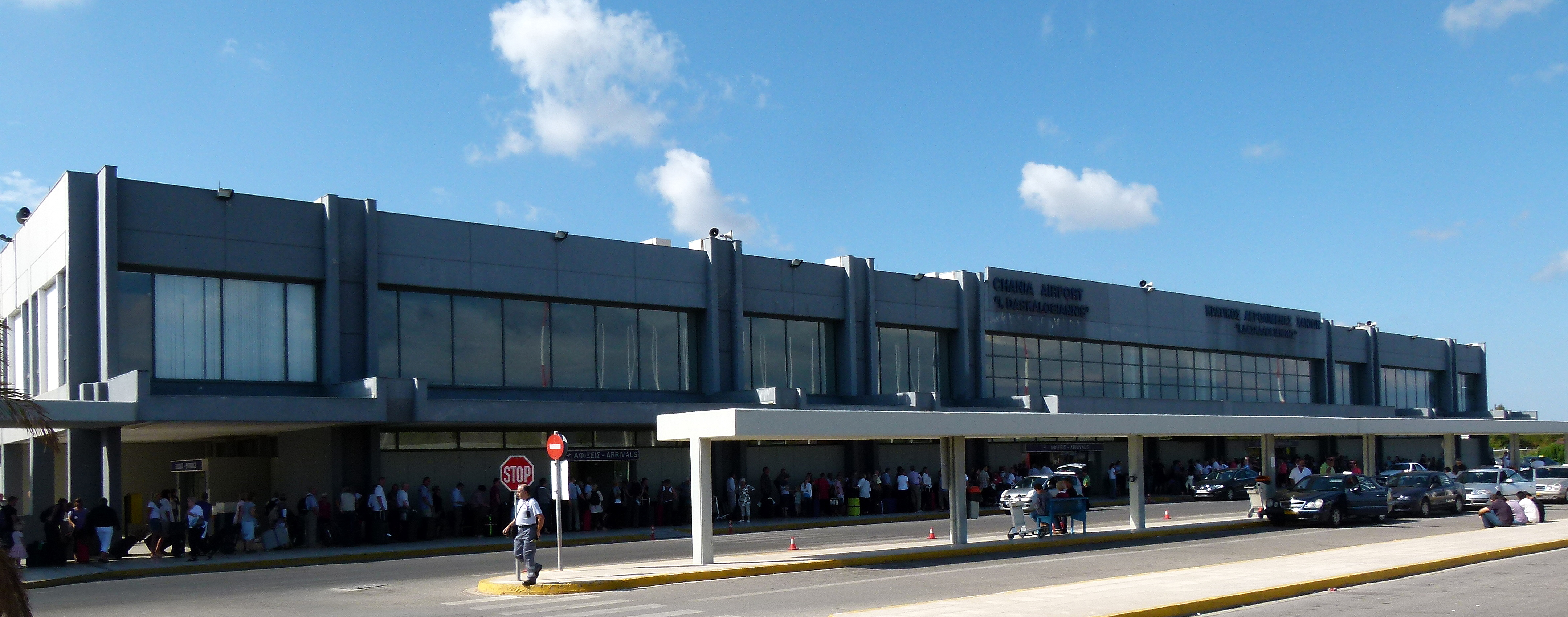 Chania International Airport